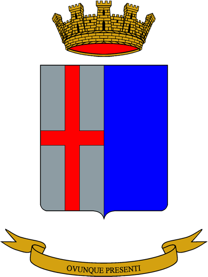 Coat of Arms of the NRDC-ITA Tactical and Logistic Support Regiment (former: 33° Logistic Regiment); Italian Army.